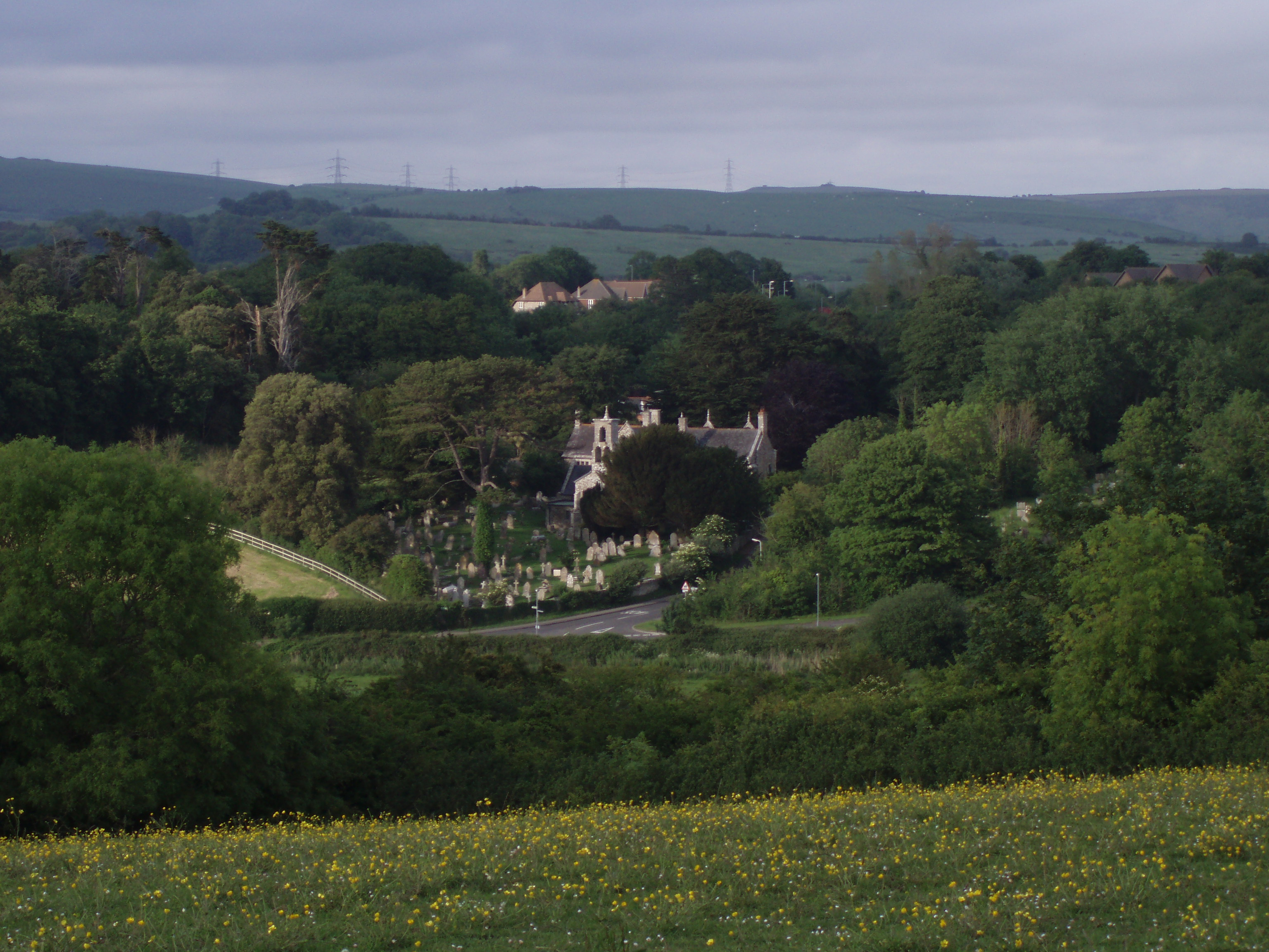 View northeast from Southill, Radipole, Dorset, with St Ann's parish church in the foreground and the roofs of the Old Manor House beyond